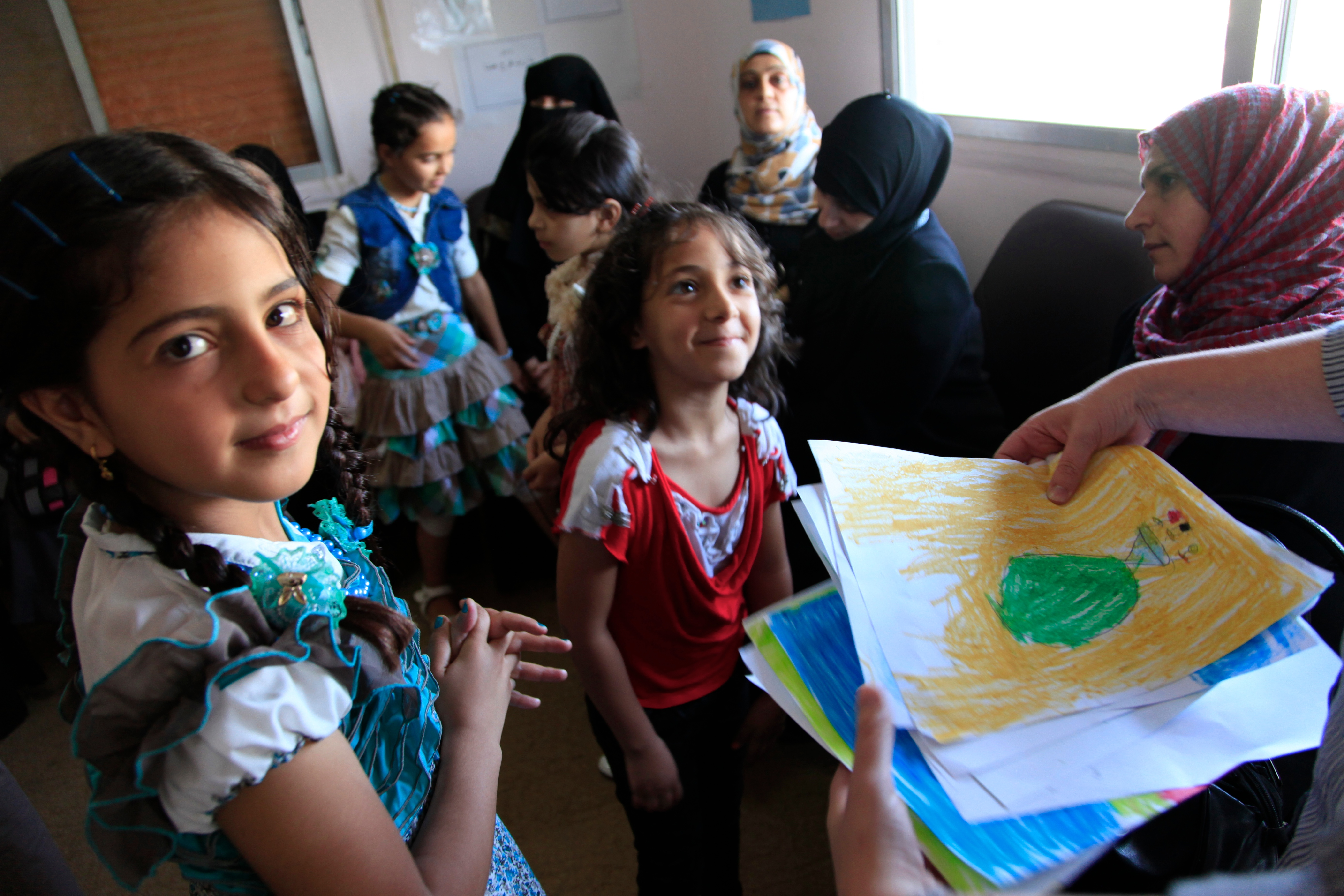 The majority of the half million Syrian refugees in Jordan live in urban areas like Ramtha. Although they have been welcomed by Jordanian communities, many refugees are poor and unable to obtain legal jobs. The UK is helping to meet the needs urban refugees as well as those in camps. Find out more about UK support for the Syria humanitarian crisis Picture: Russell Watkins/Department for International Development